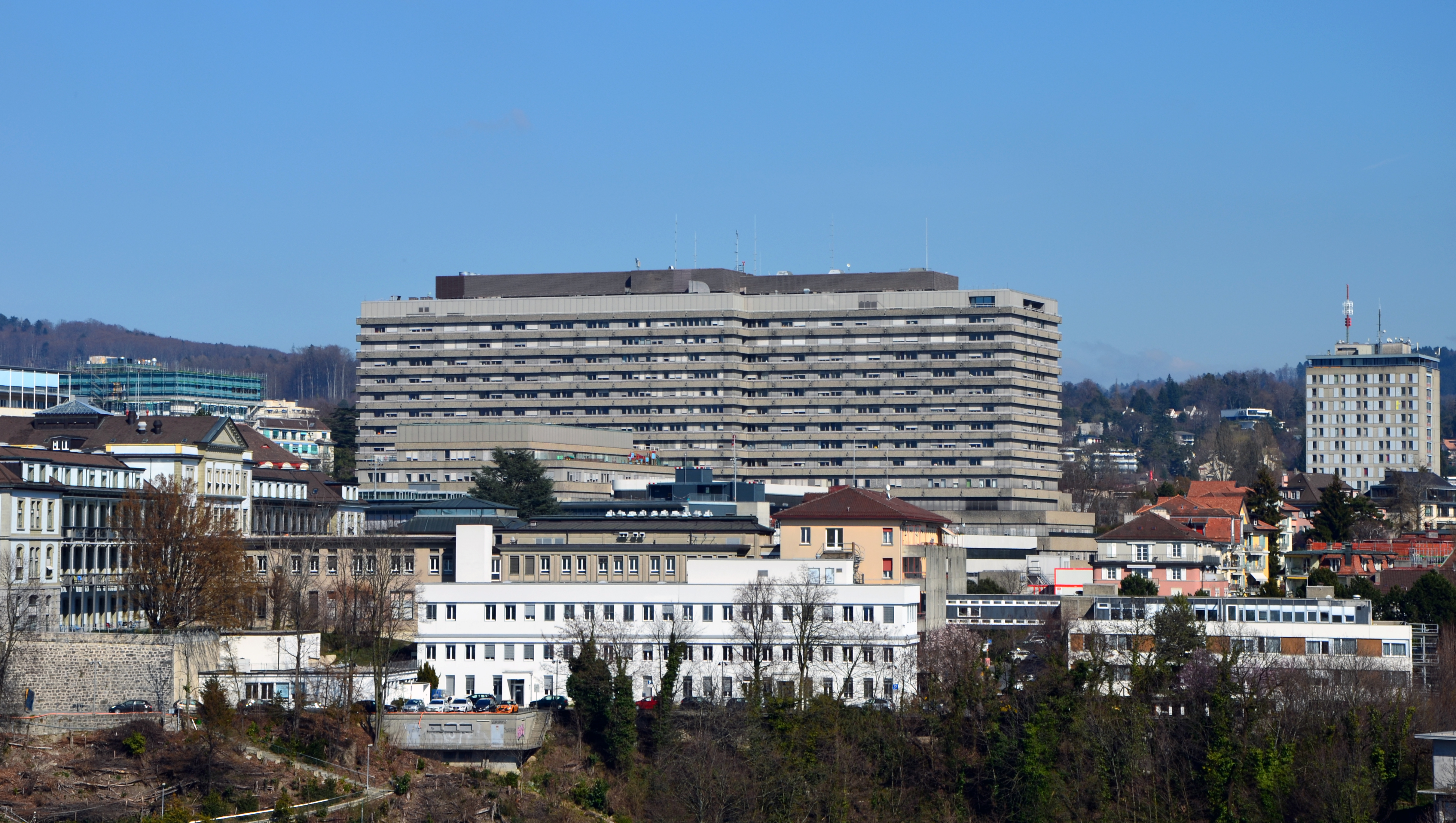 Lausanne University Hospital (Centre hospitalier universitaire vaudois - CHUV), Switzerland, viewed from the top of the cathedral.